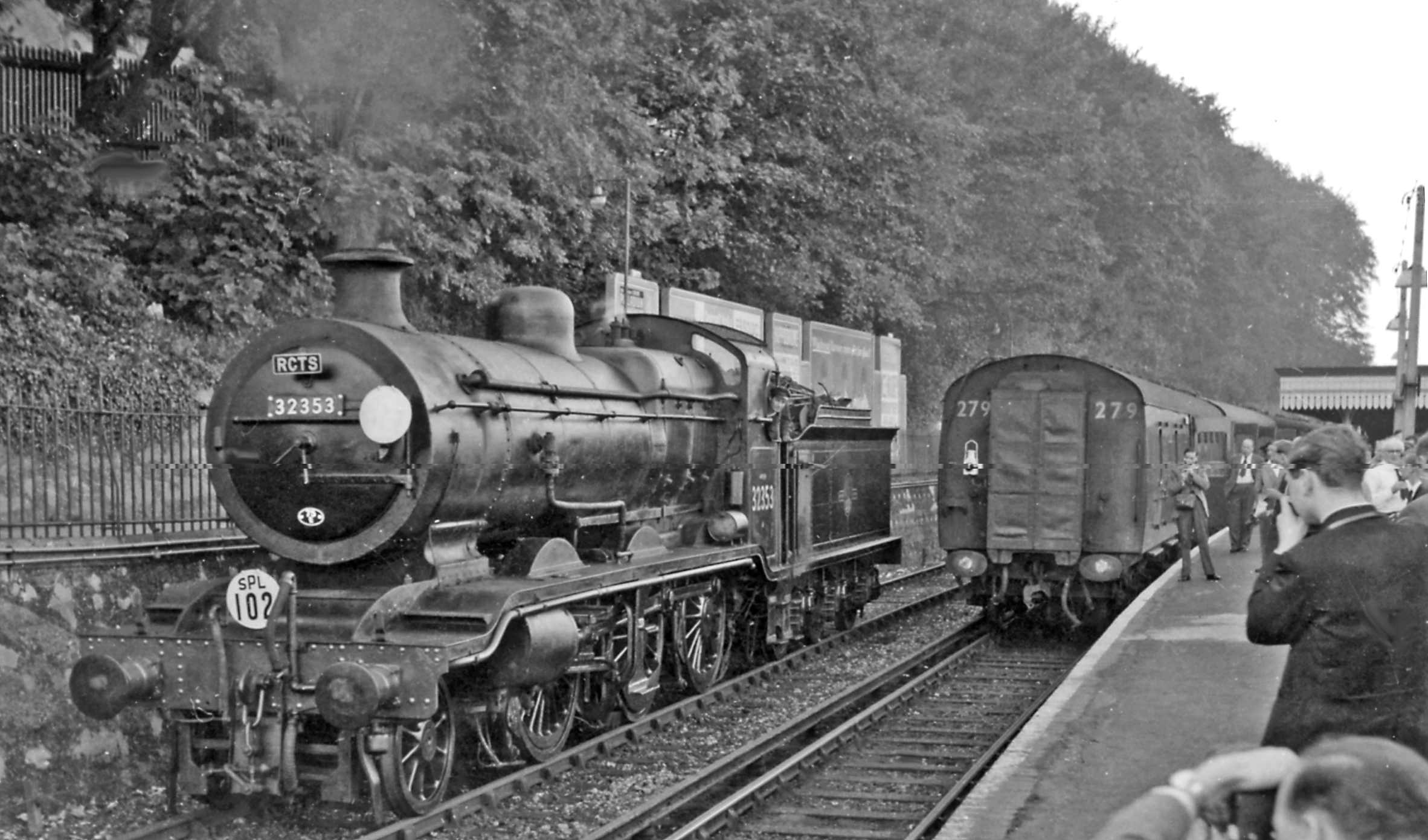 Ex-LB&SCR K class 2-6-0 on RCTS Rail Tour running round its train at Preston Park. View northward, towards Haywards Heath and London: ex-LB&SCR London - Brighton main line, junction of the loop from Hove. The RCTS Sussex Rail Tour (see TQ3380 : London Bridge (Central ) Station, with 'Schools' 4-4-0 on a Rail Tour) is on its way back to London by a circuitous route and R. Billinton K class No. 32353 (built 3/21, withdrawn 12/62), running tender-first, has drawn the train out of Brighton Station. It will now take the train round to Hove, thence back to London via Steyning and Horsham. [I was not the only one to photograph